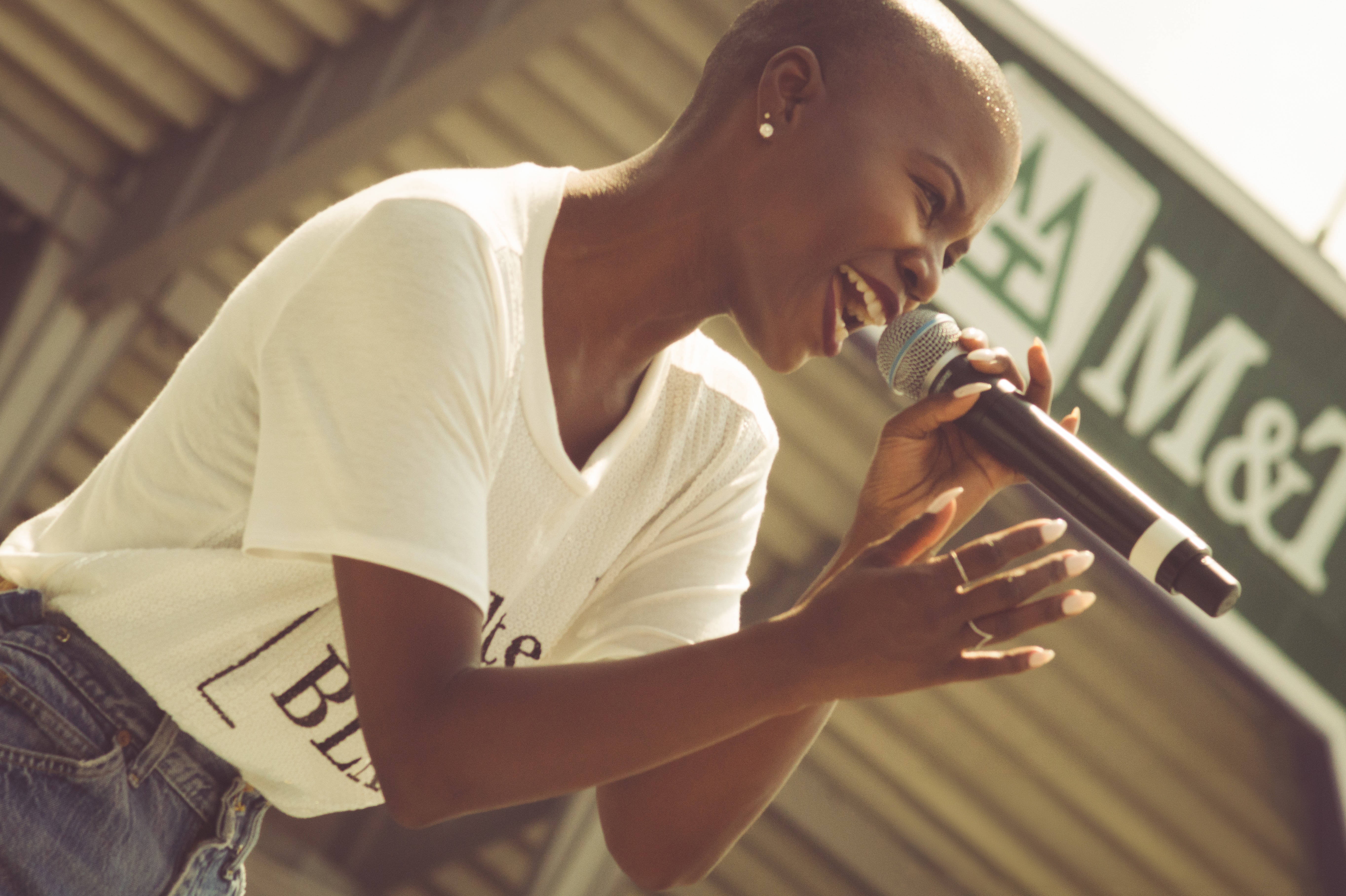 Black Enterprise African-American Festival - Baltimore, MD (June 20, 2015) Veronika Bozeman Veronica Bozeman